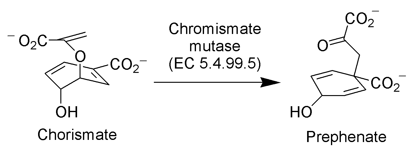 Description: Chemical reaction scheme of Chorismate mutase. (See also Claisen rearrangement) Author, date of creation: selfmade by ~K, 04 September 2005. Source: - Copyright: Public domain. (PD) Comments: high-resolution b/w PNG; ChemDraw / The GIMP.